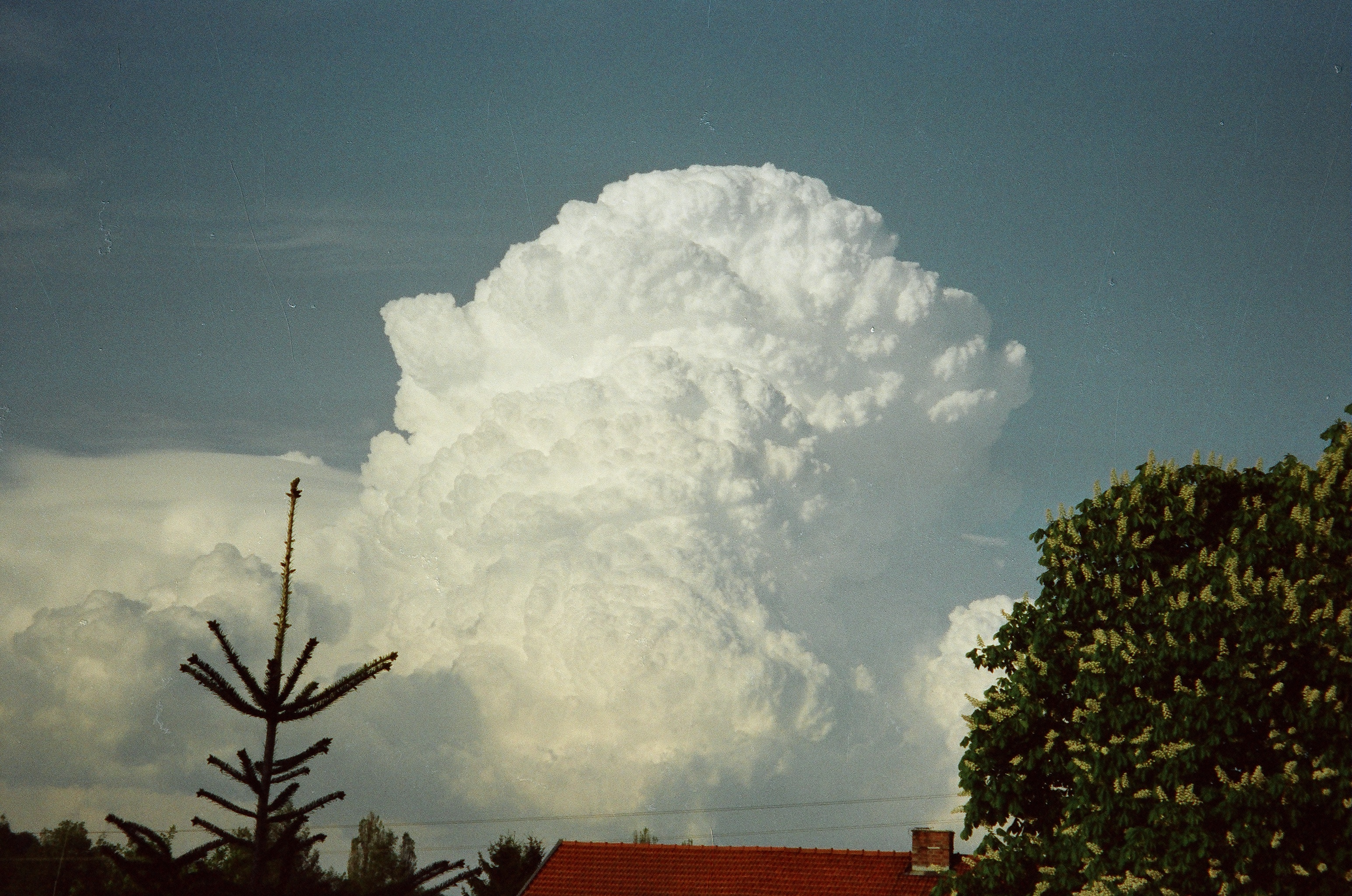 "Cumulus congestus cloud" over east horizon. Viewpoint: Hirten, Narzissenweg 2 in Burgkirchen/Alz - Germany